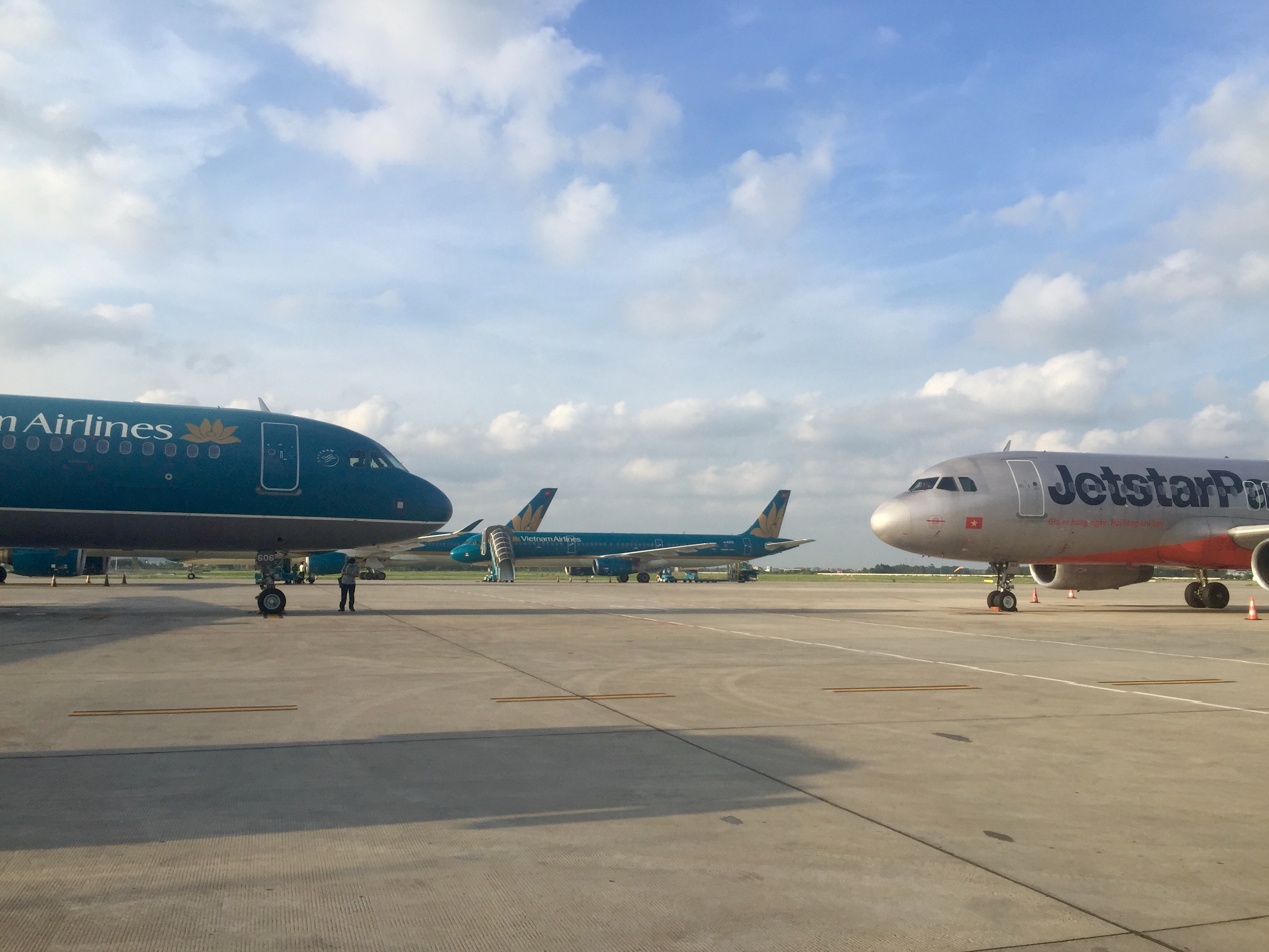 Line of grounded aircraft due to COVID, Hanoi 2020.jpeg